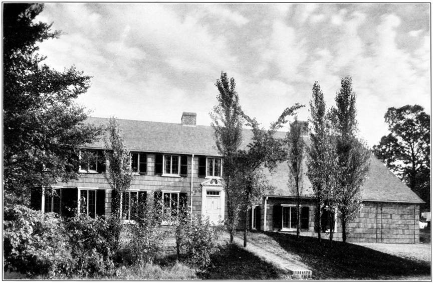 House of Bert Leston Taylor, Glencoe, IL. c.1916. Robert Seyfarth, architect